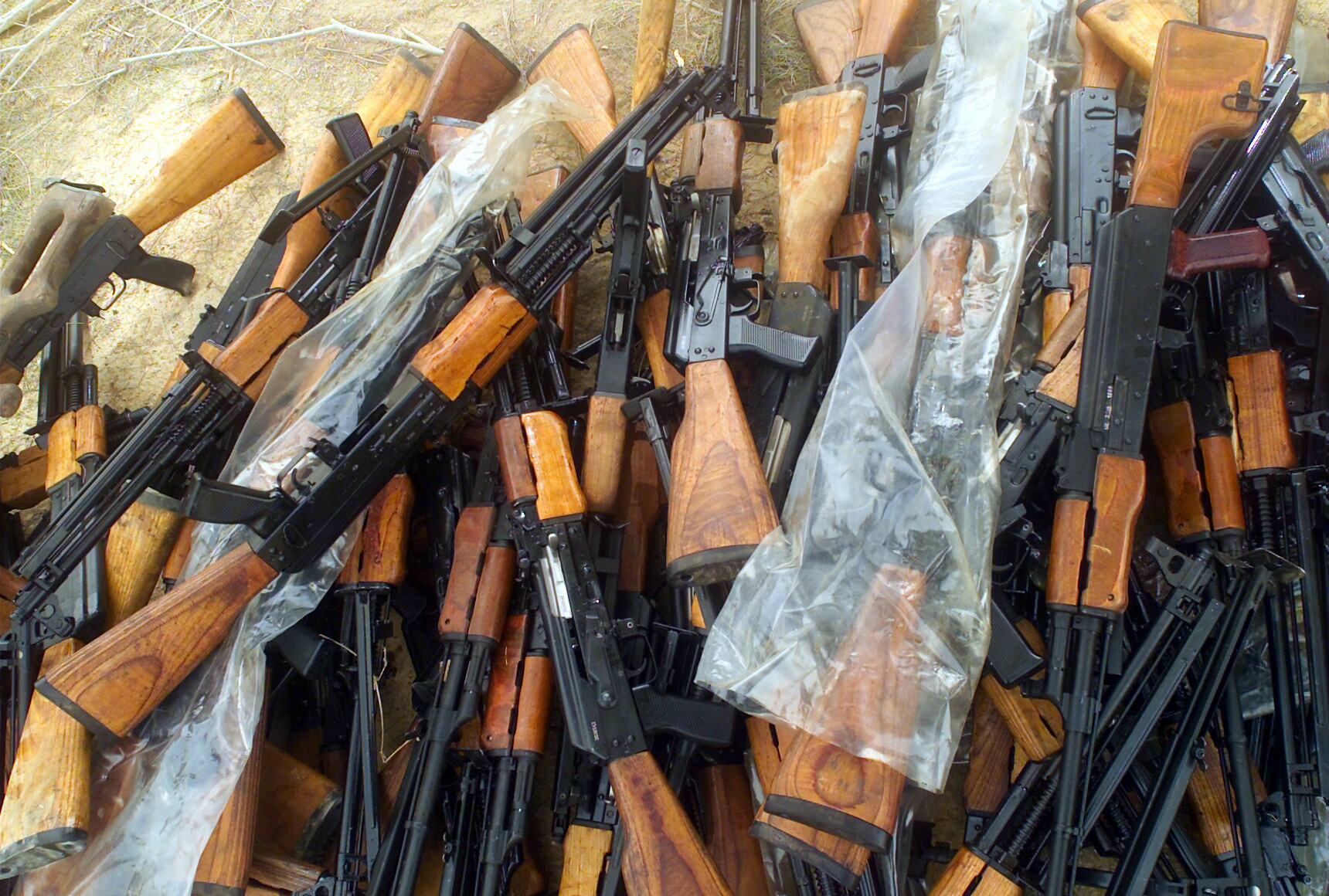 A captured Fedayeen weapons cache containing hundreds of Serbian Zastava M72 (Soviet RPK variant) and iraqi Al Quds light machine guns, just outside of Jaman Al Juburi, Iraq during Operation Iraqi Freedom.